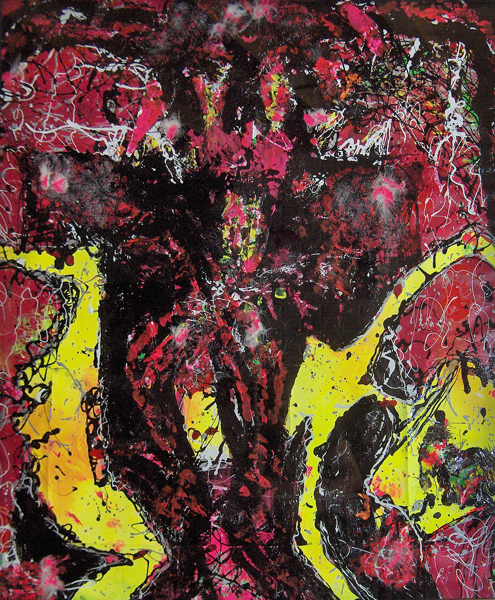 "Devouring Daemon" (2010), blacklight painting by Natasja Delanghe